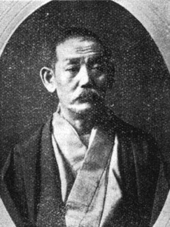 Mr. Rokushirō Uehara, lecturer of the Tokyo Higher Normal School, the Tokyo School of Fine Arts, and the Tokyo Academy of Music.